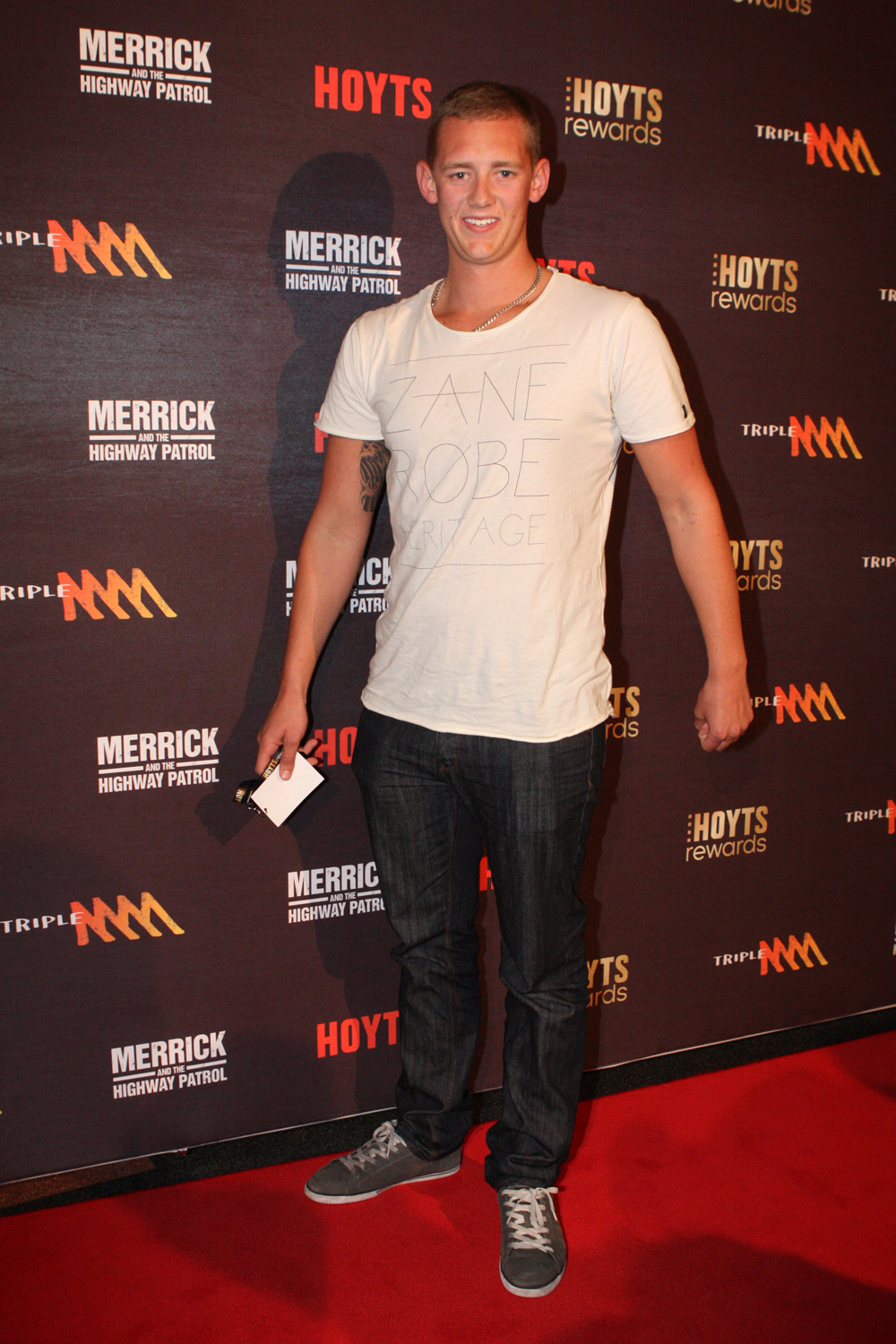 The Nullarbor Nymph opens and plays red carpet at Entertainment Quarter, Fox Studios, Sydney Merrick & The Highway Patrol threw a huge premiere for ‘The Nullarbor Nymph’ tonight at Hoyts, Fox Studios Australia - Entertainment Quarter, in Sydney. 'The Nullarbor Nymph' was made in the small Australian town of Ceduna and stars mainly local farmers. The film’s director Mathew Wilkinson had to clean toilets for months, just so that he could fund it. The movie has been turned away from every film festival in the world, so Merrick & The Highway Patrol want to get behind this tiny Aussie film by rolling out the red carpet and giving it the premiere it deserves! 'The Nullarbor Nymph' is a mockumentry following two Water Australia employees as they travel across the Nullarbor Plain only to be hunted down by the mythological creature the Nullarbor Nymph, a blonde, seductive temptress wearing kangaroo skins with a taste for destruction. Director: Mathew J. Wilkinson Writer: Mathew J. Wilkinson Stars: Douglas Feary, Paul Hayman and Jessica Sterling Websites The Nullarbor Nymph Facebook Triple M - Merrick And The Highway Patrol Eva Rinaldi Photography Flickr Eva Rinaldi Photography